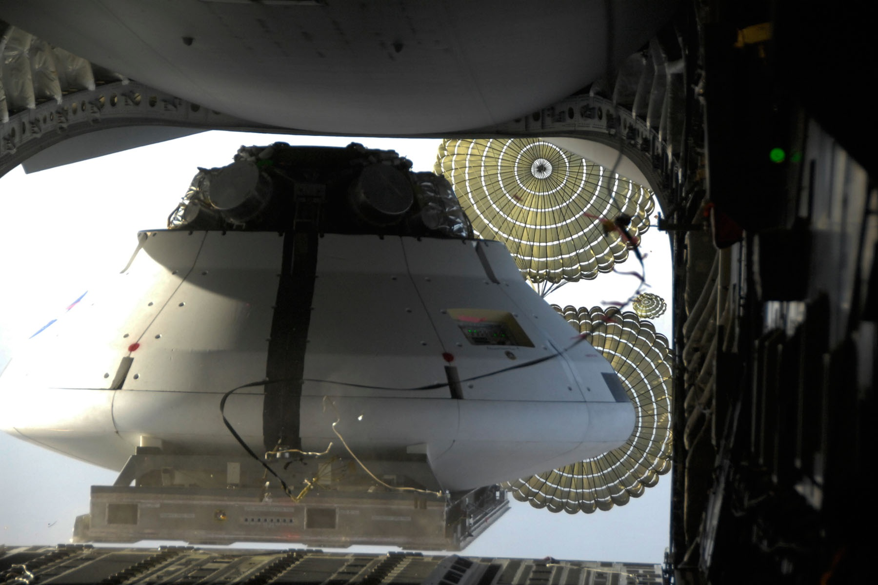 A test model of the Orion spacecraft with its parachutes was tested the skies high above the U.S. Army's Proving Grounds in Yuma, Ariz. on Feb. 29, 2012. This particular drop test examined the wake - or the disturbance of the air flow behind Orion - that is caused by the spacecraft. The Orion spacecraft will replace the space shuttle as NASA's vehicle for human space exploration and is designed to accommodate four to six astronauts on deep space missions. It also could supplement commercial and international partner transportation services to the International Space Station. The Space Launch System, or SLS, is the heavy lift rocket that will carry the Orion spacecraft into space providing an entirely new capability for human exploration beyond low-Earth orbit.